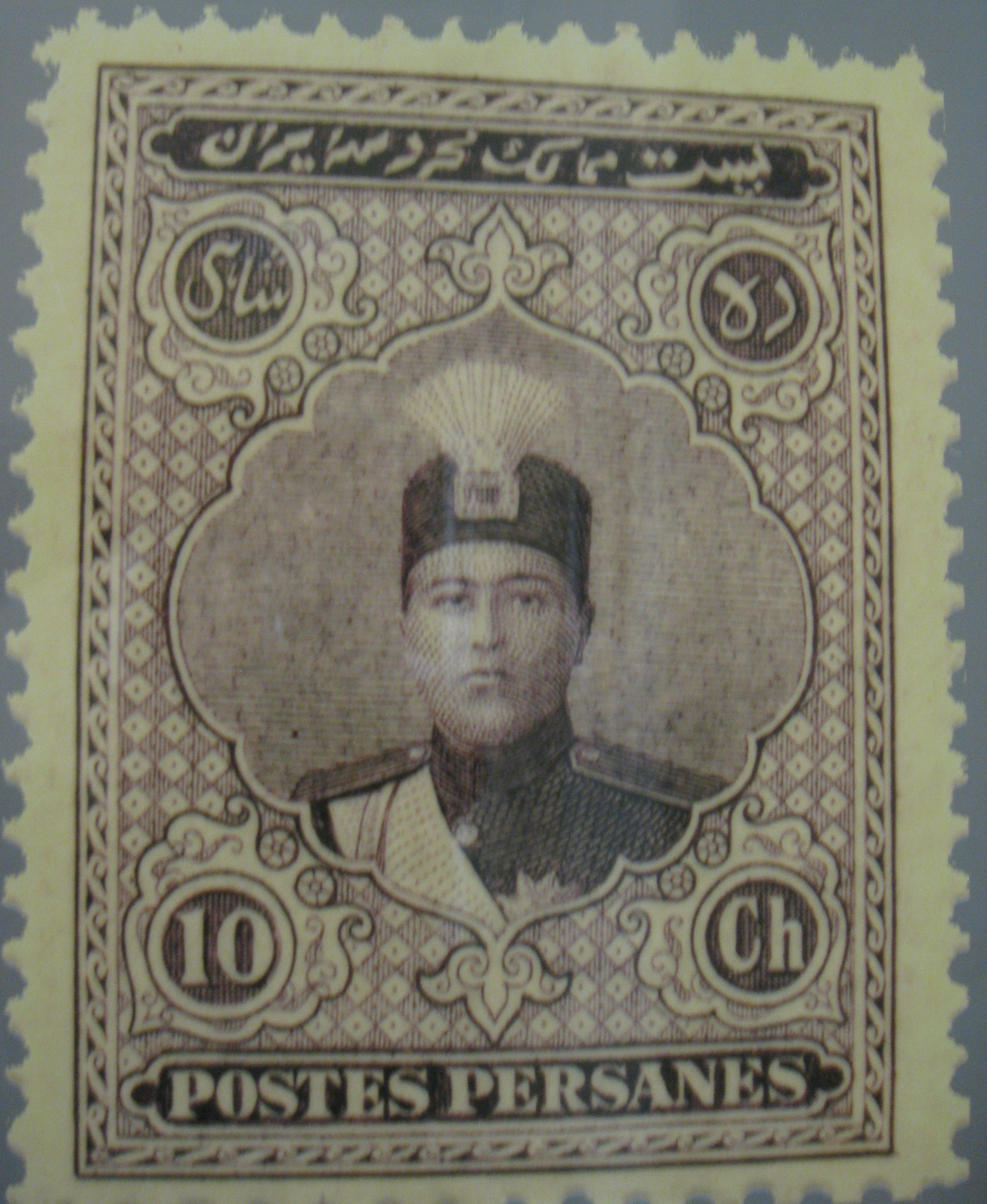 ahmadshah stamp-10 shahis